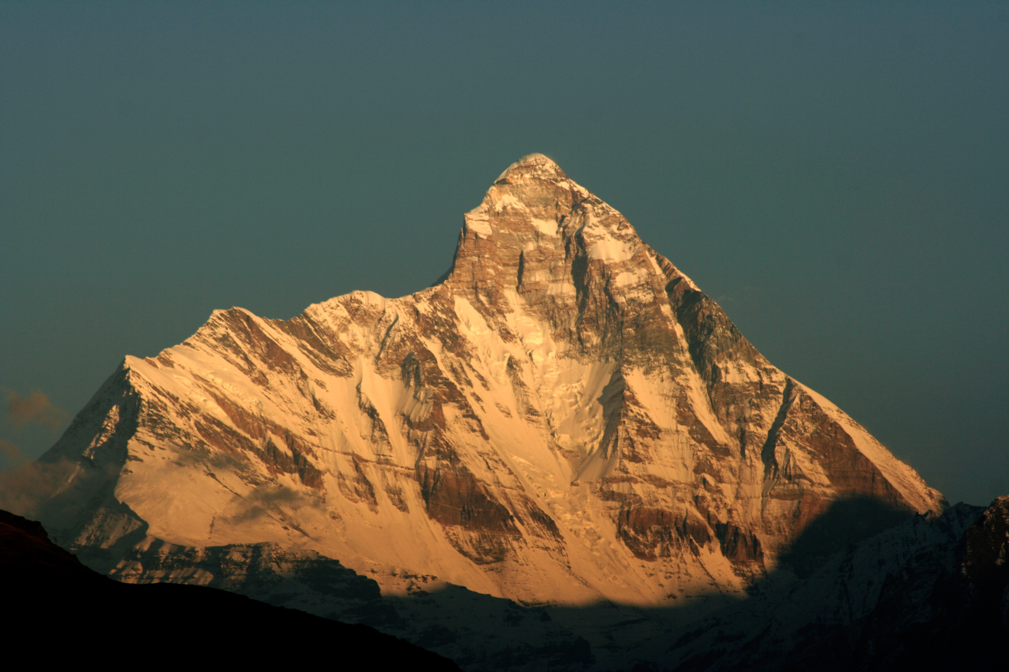 Nanda Devi from the west.